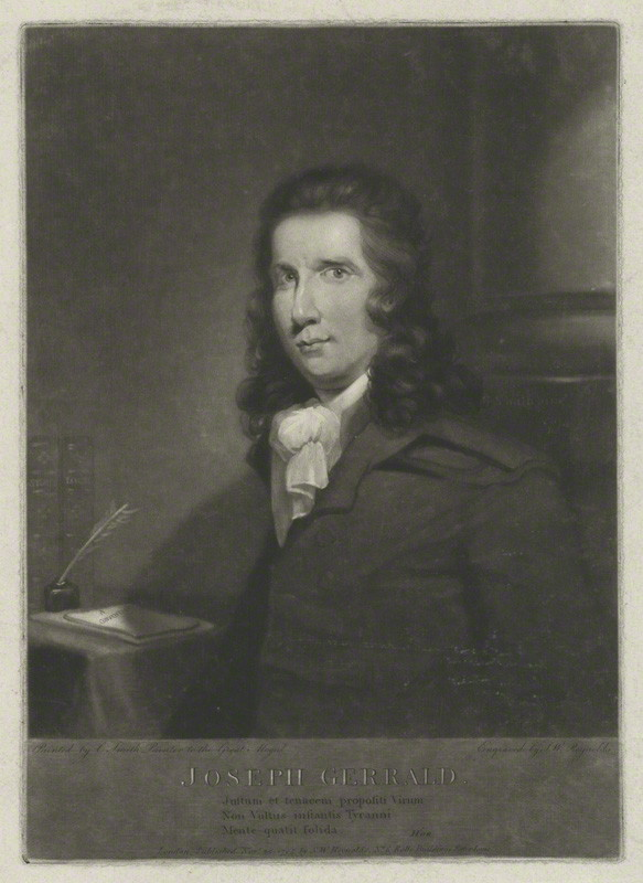 by and published by Samuel William Reynolds, after Charles Smith, mezzotint, published 1795 (1794)